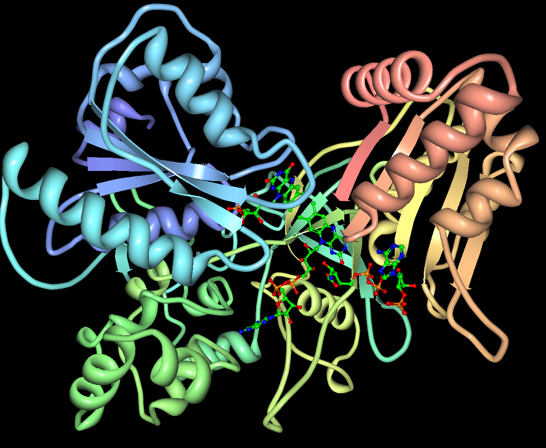 Structure of cytochrome P450 oxidoreductase (from yeast) using protein workshop and the data from 2BN4.pdb